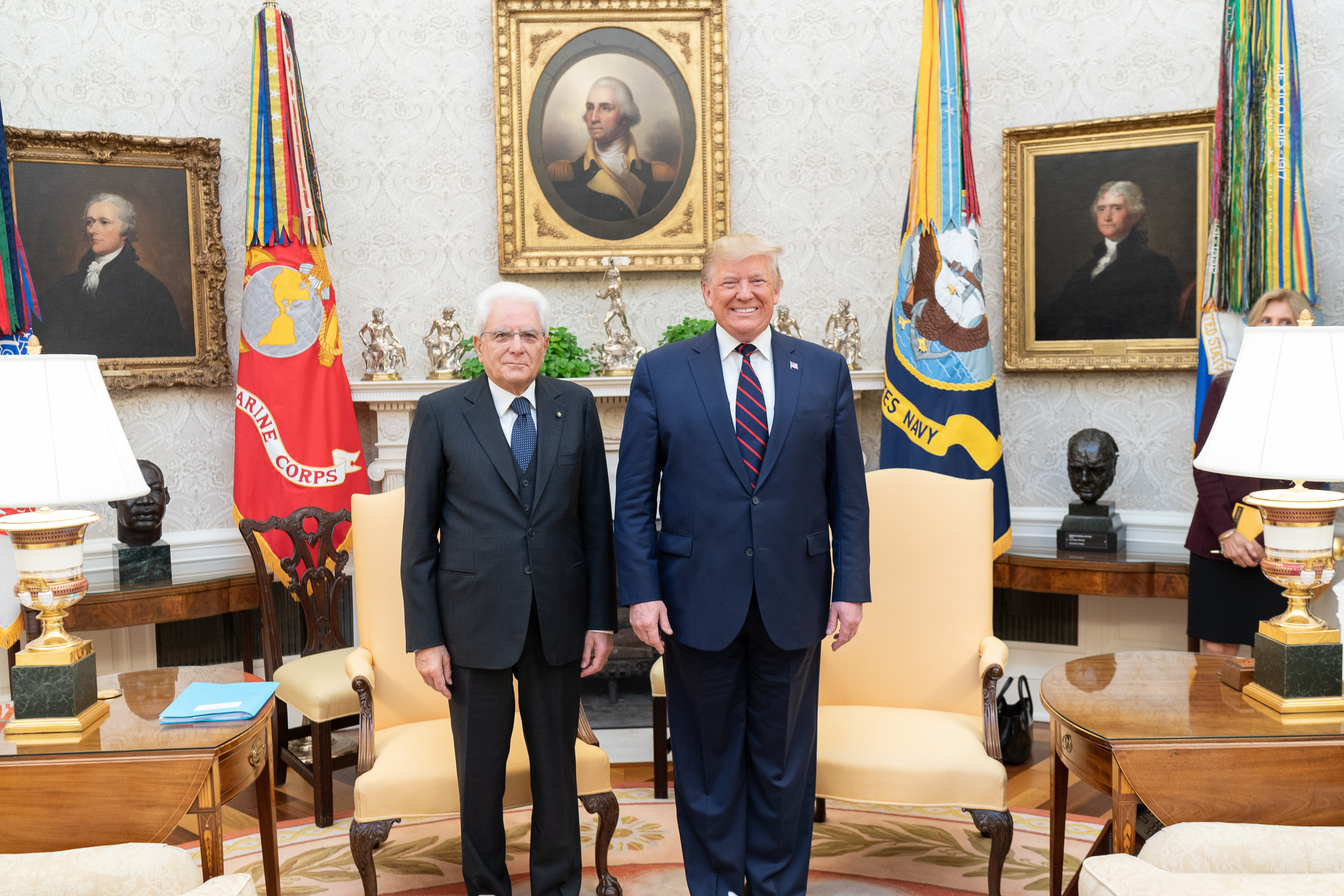 President Donald J. Trump participates in a bilateral meeting with Italian President Sergio Mattarella Wednesday, Oct. 16, 2019, in the Oval Office of the White House. (Official White House Photo by Shealah Craighead)